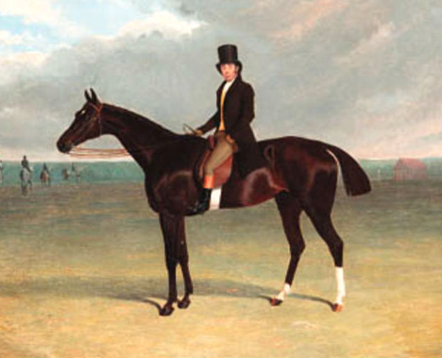 Painting of British racehorse Galata, by John Frederick Herring Snr (1795–1865). Artist dead for 157 years.